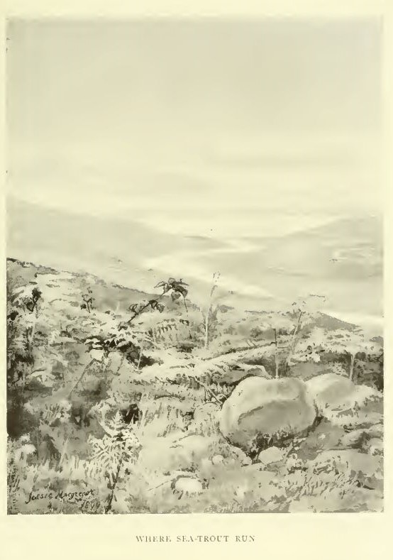 Where Sea Trout Run from Fly Fishing (1899), Sir Edward Grey, 1920 edition